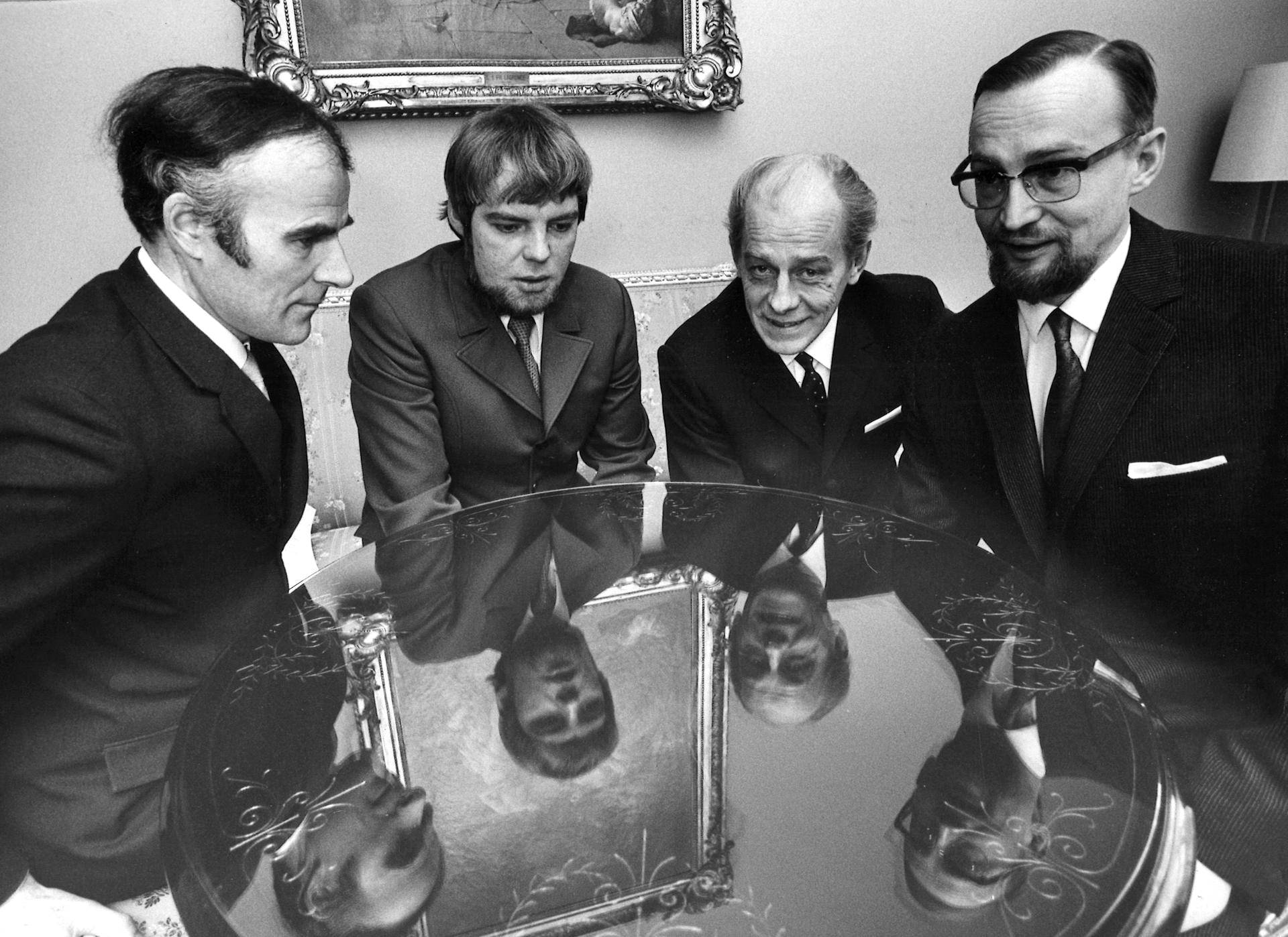 Photograph of four awarded Finnish playwrights: Jouko Puhakka (left), Juhani Peltonen, Lauri Leskinen, and Paavo Haavikko